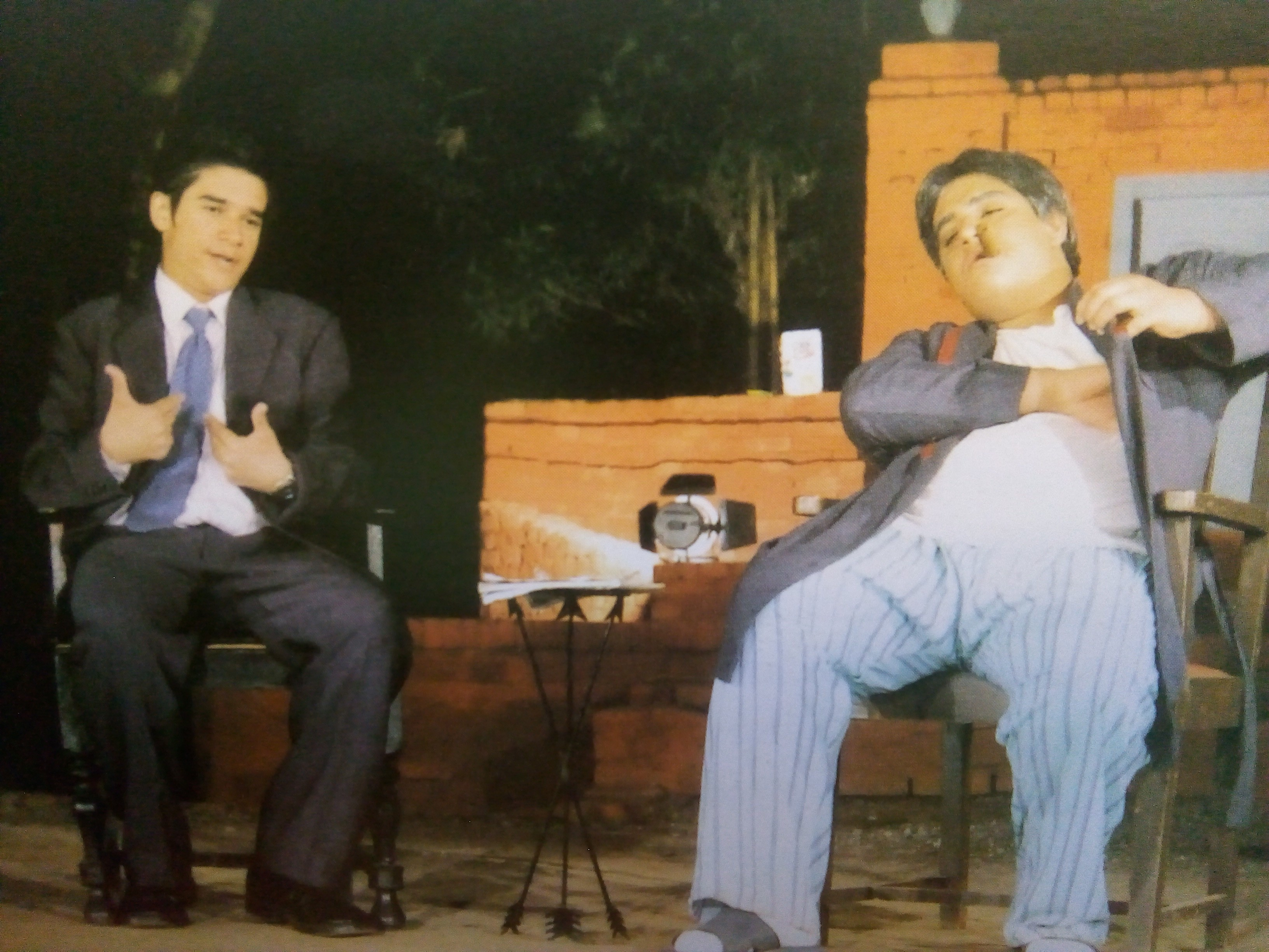 A student production (featuring Vivaan Shah) of Neil Simon's The Sunshine Boys at The Doon School, Dehradun, India.